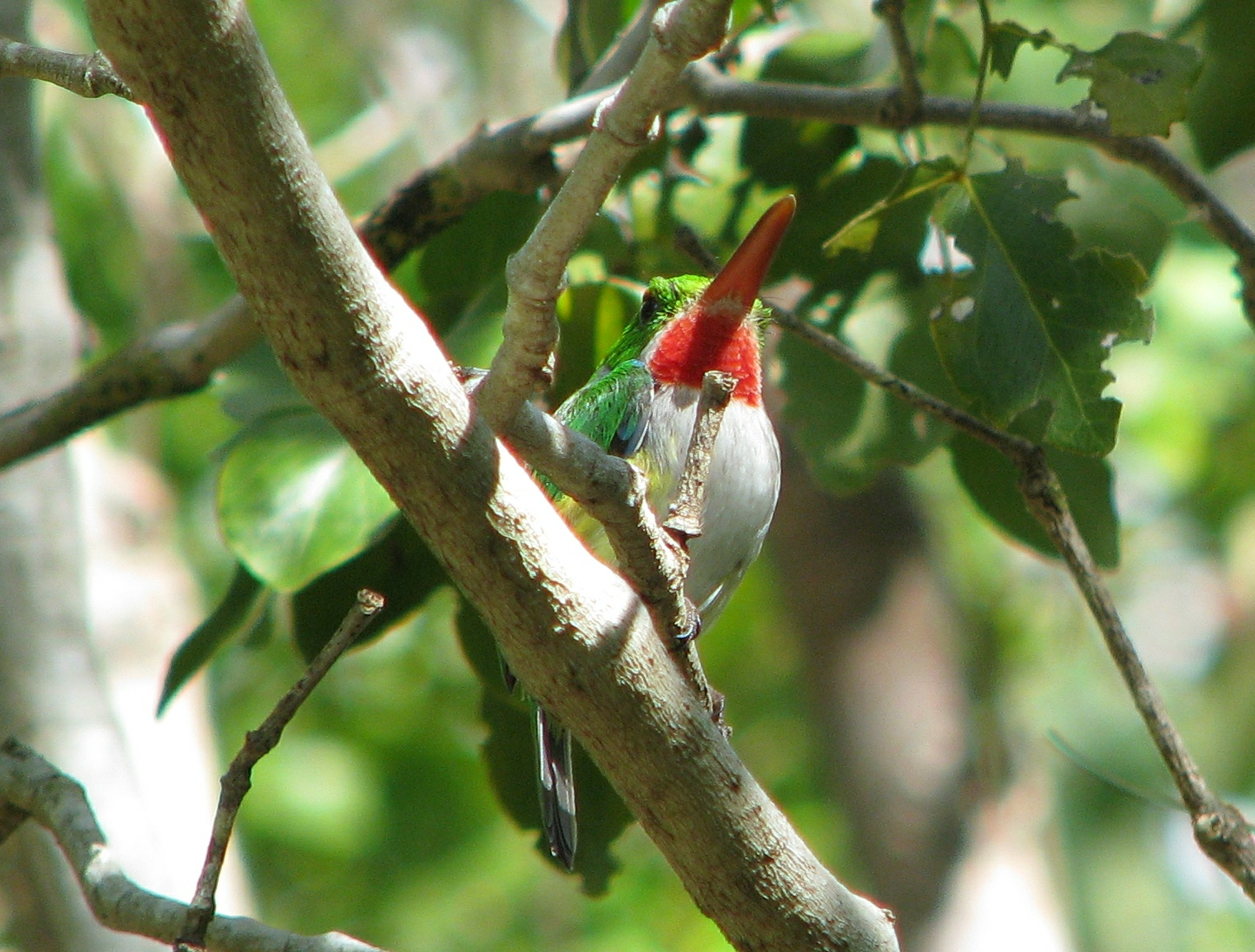 Puerto Rican Tody, taken in Bosque Estatal de Guanica, Puerto Rico